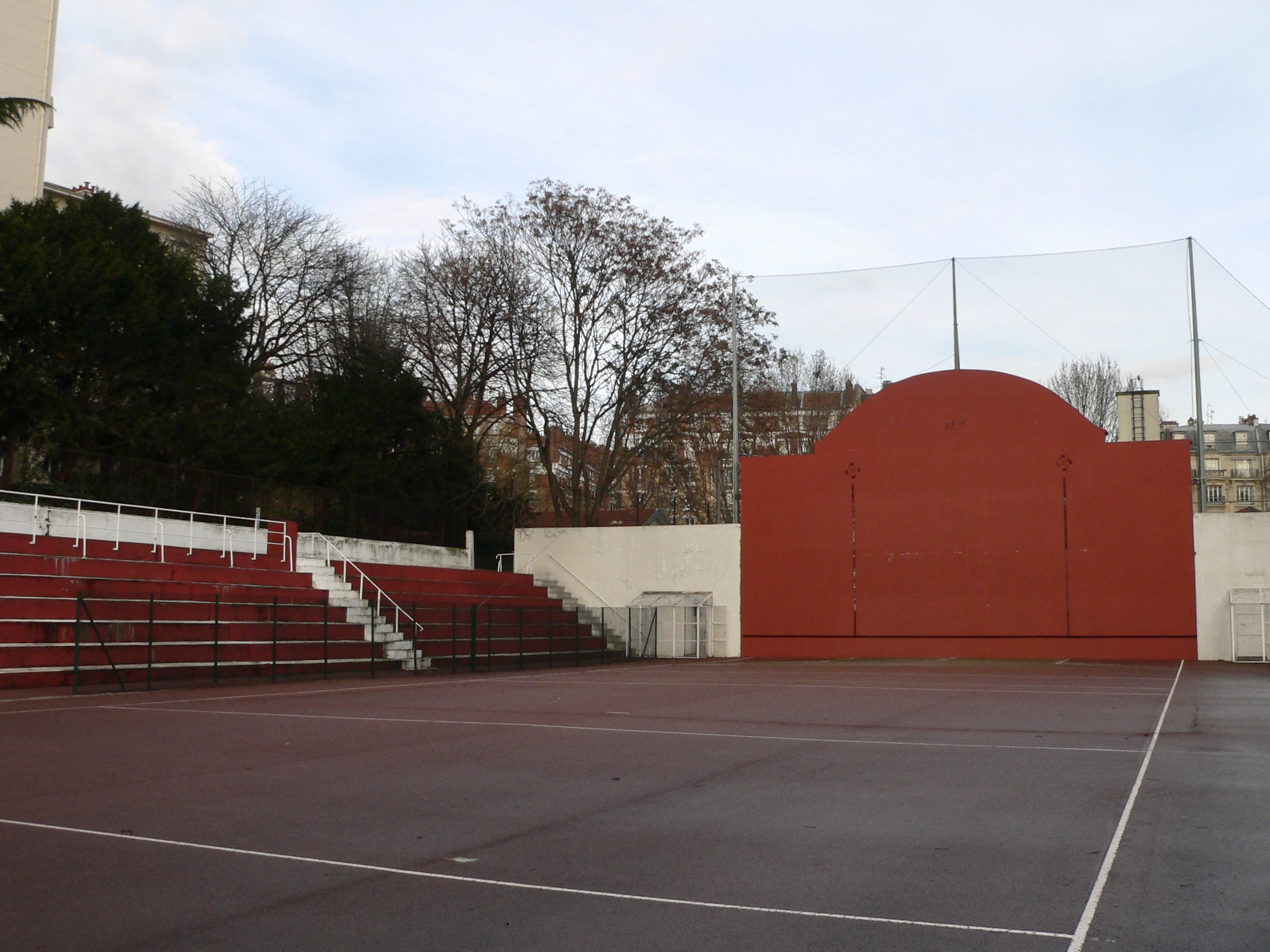 Chiquito de Cambo pilota stadium, Paris, 16th arrondissement